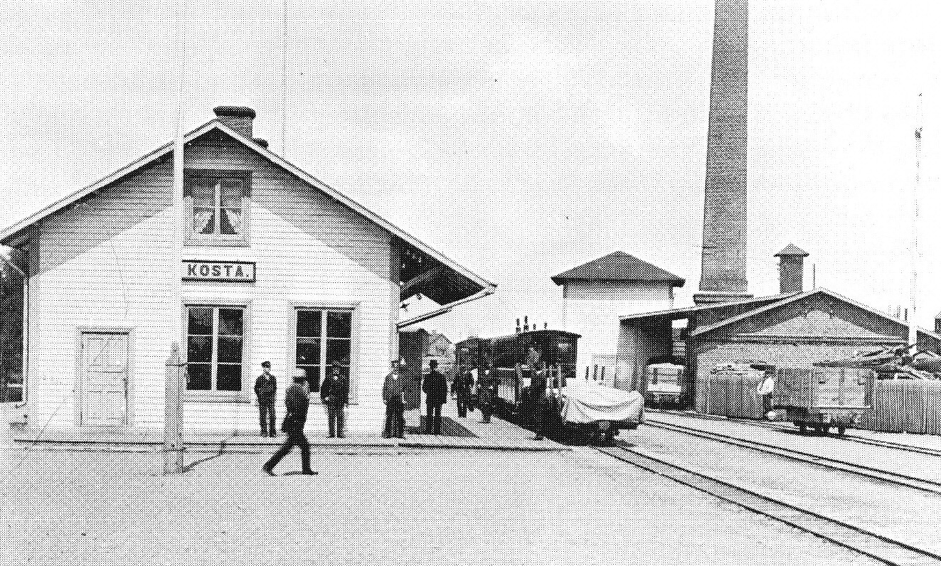 Kosta railway station in Kosta, Sweden, in the 1890's